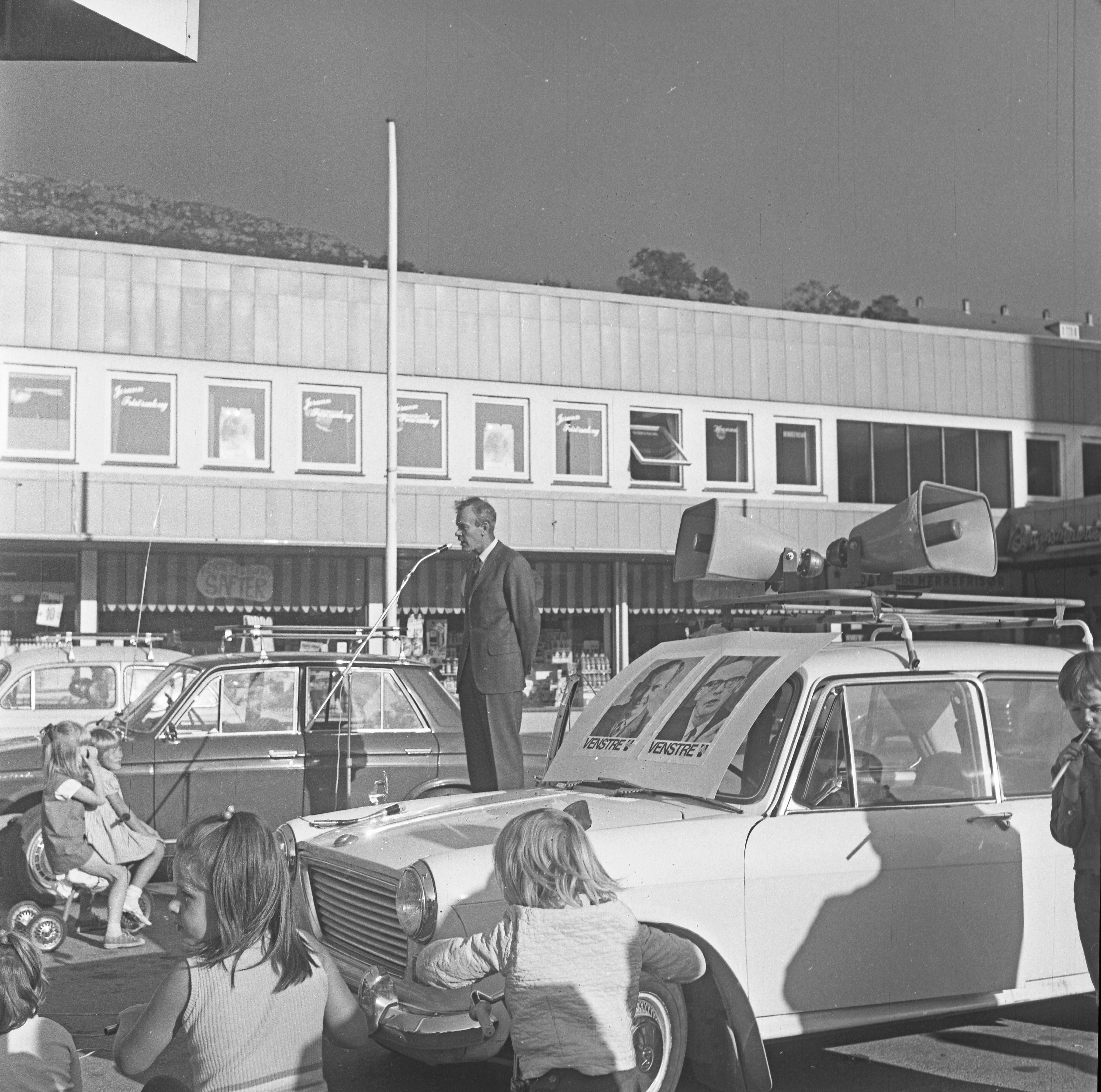 Gunnar Garbo (Liberals) speechs during the election campaign prior to the 1969 Norwegian parliamentary election.